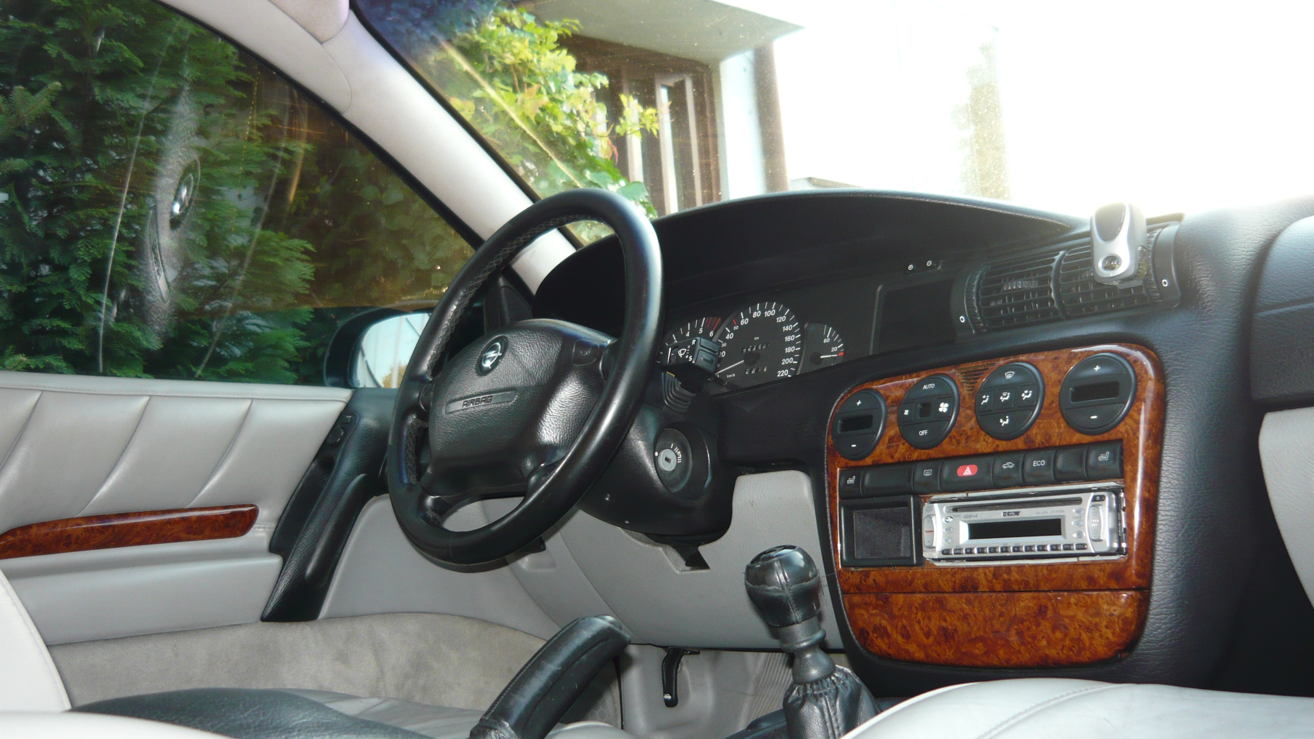 Opel Omega Inside